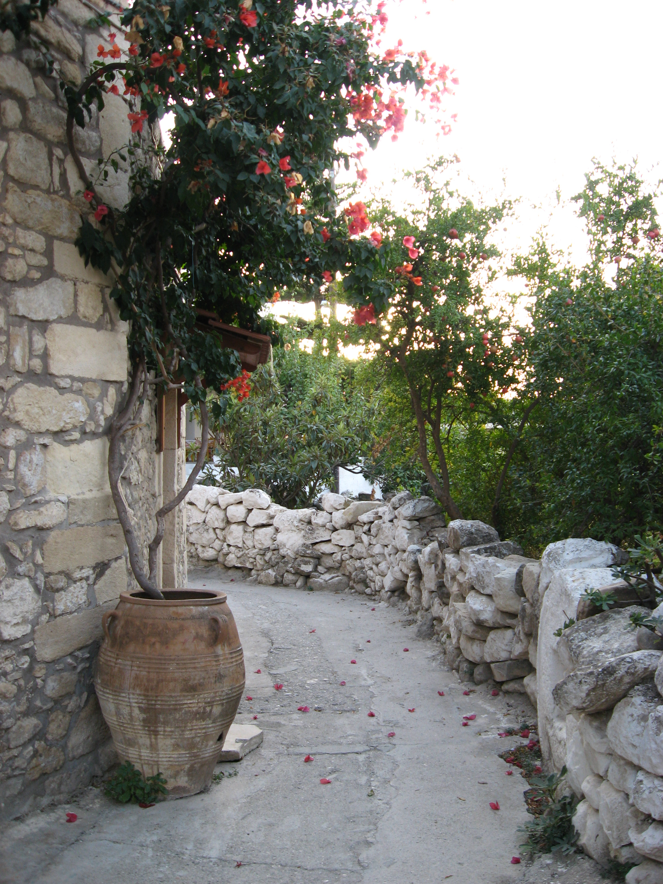 Margarites, Rethymno, Greece